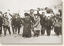 Locals carry Harriet Quimby up the beach after her landing at Hardelot 1912